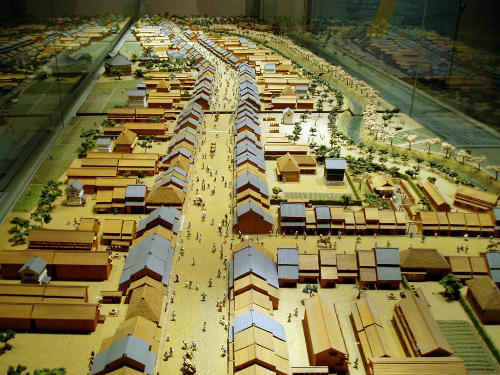 At the Shinjuku ward Shinjuku historical museum the Naito Shinjuku which is displayed restoration model. Divergence of the road forward the Shinjuku forked road (extending to the picture right the Kousiyuu highway, the Oume highway), the Tamagawa clean water and cherry tree Namiki it is visible in the right side like the town that it extends under the picture.